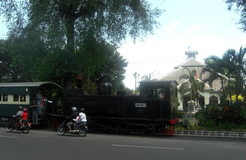 Steam Loco Jaladara in Surakarta